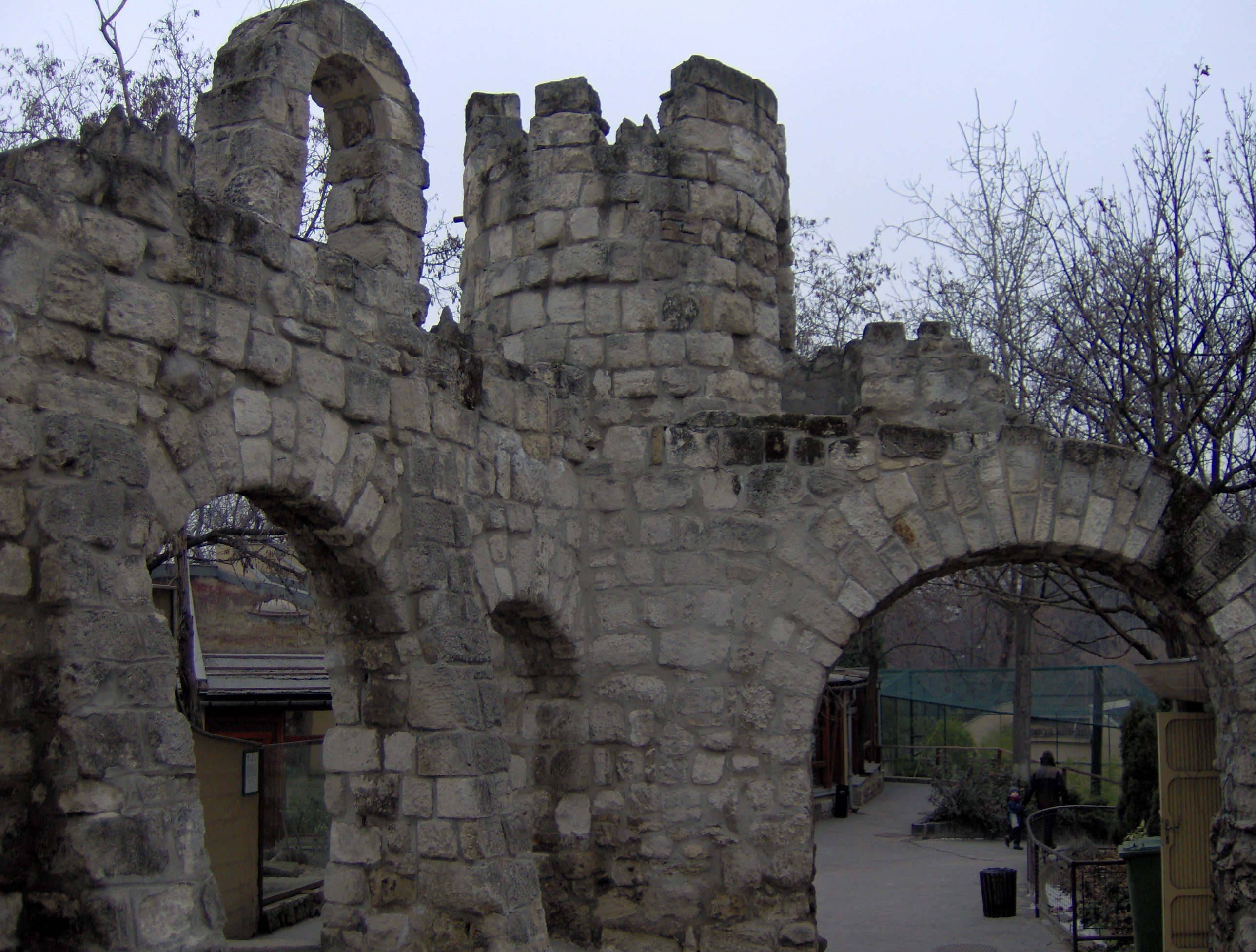 Owl Castle at the Budapest Zoo